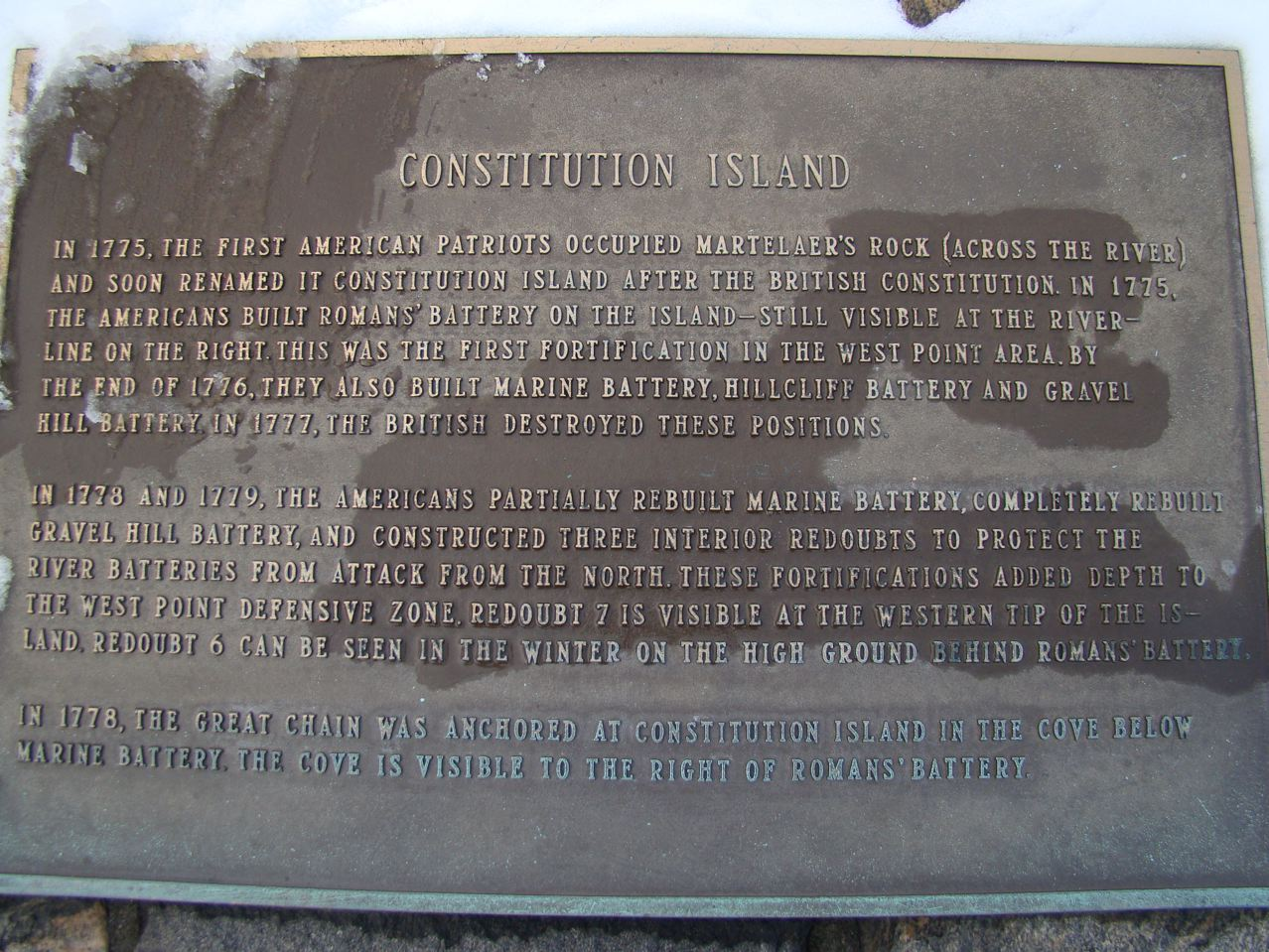 A bronze plaque describing the history of Constitution Island, NY. Plaque overlooks the Hudson River from Battery Sherburne, just east of Trophy Point.